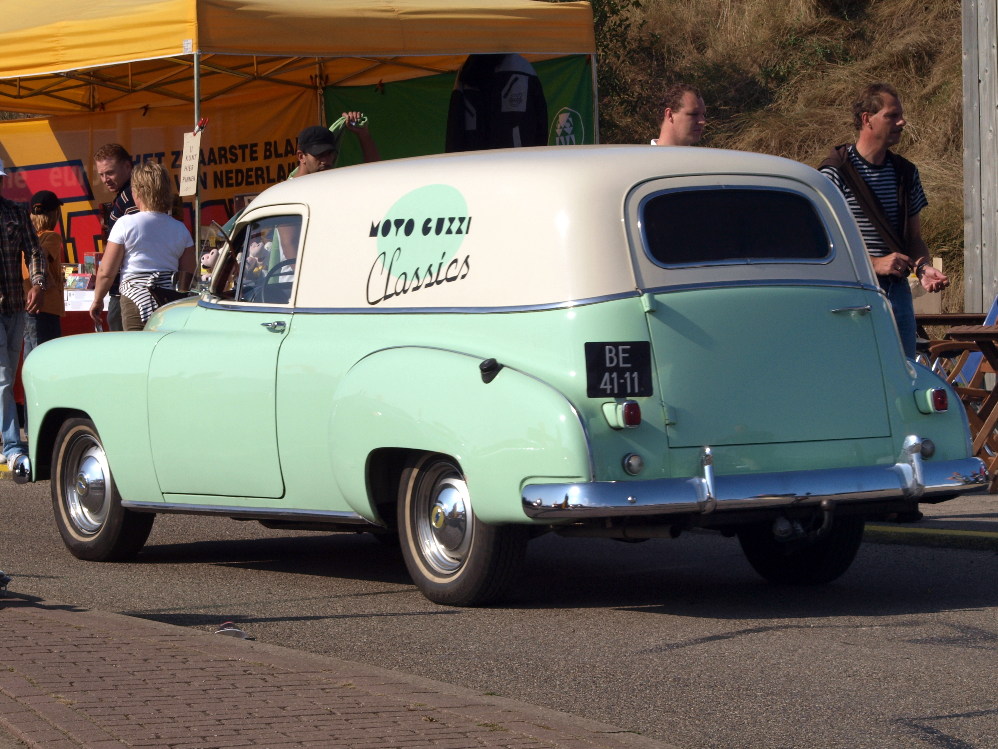 Photographed at the Nationaal Oldtimer Festival Zandvoort 2009, The Netherlands. OLYMPUS DIGITAL CAMERA